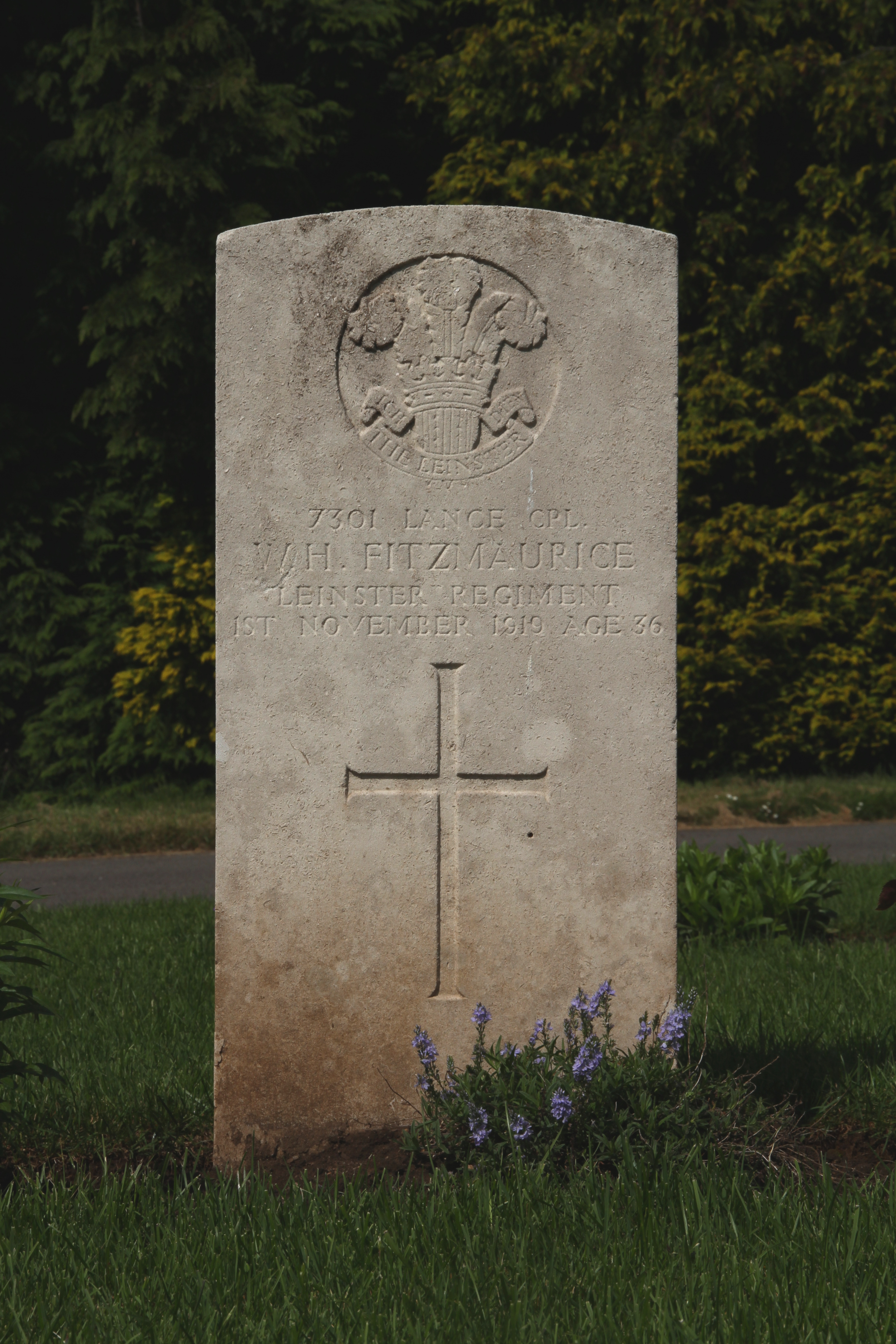 Cathays Cemetery, Cardiff: grave of Sgt WH Fitzmaurice, Leinster Regiment, in the Commonwealth War Graves section